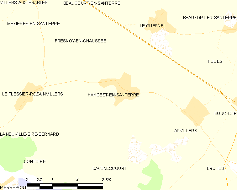 Map of French municipality Hangest-en-Santerre